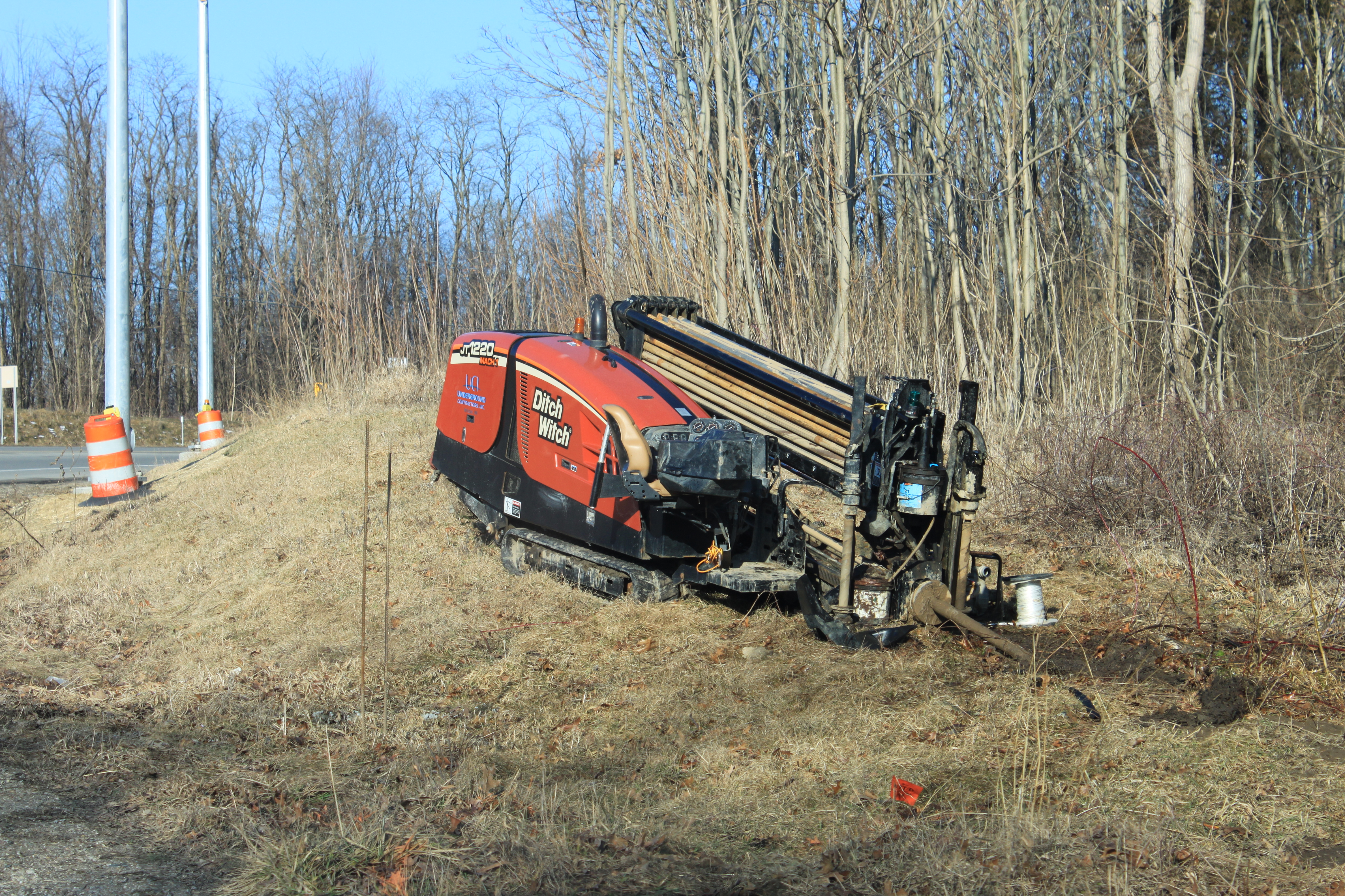 Ditch Witch JT1220 horizontal directional drill in operation on M-36 in Hamburg Michigan, just east of Merrill Road.